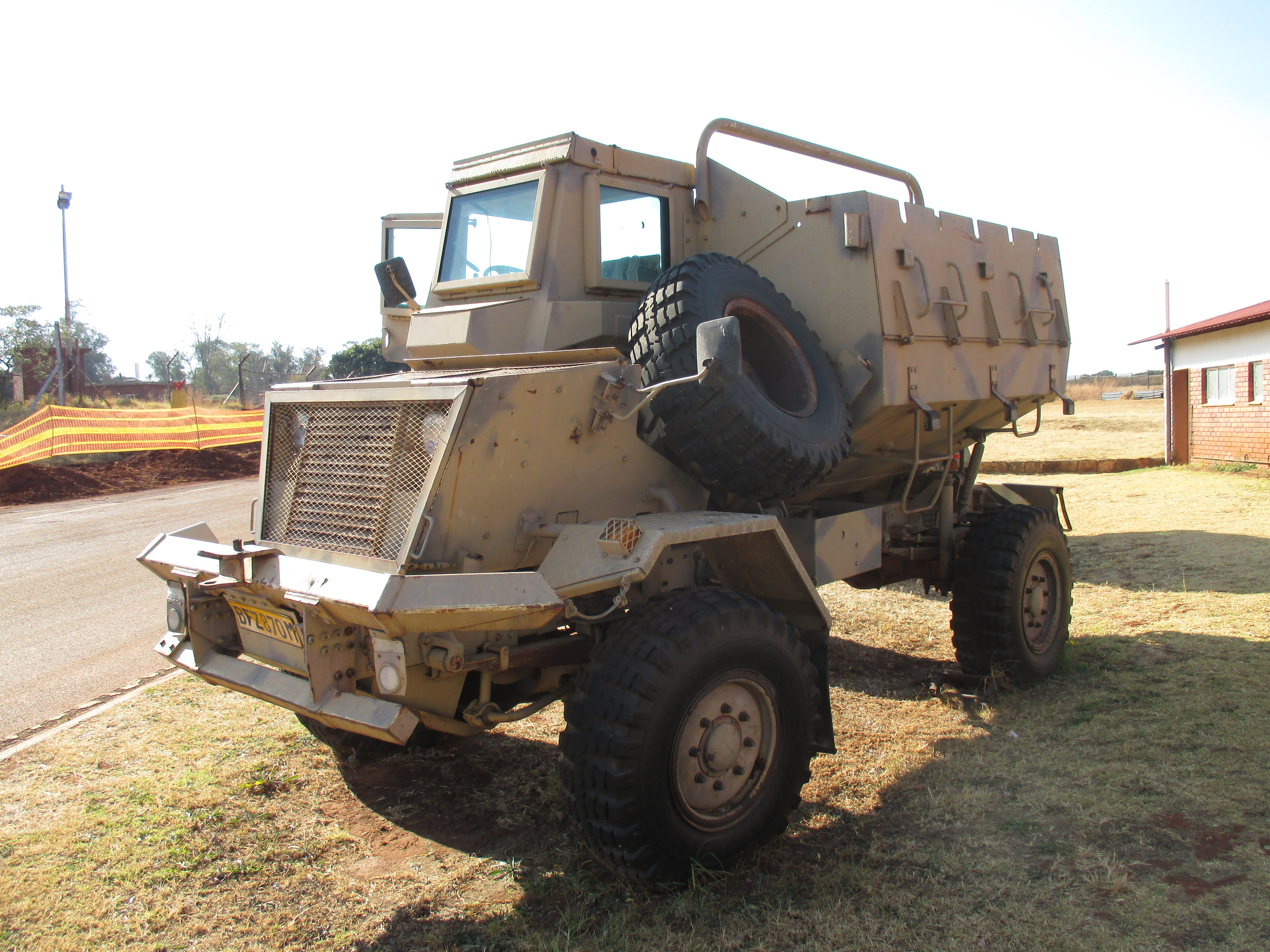 Description: Armoured personnel carrier outside Swartkop Air Force Base, Pretoria.